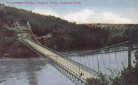 Queenston-Lewiston Bridge between the United States and Canada across the Niagara River.